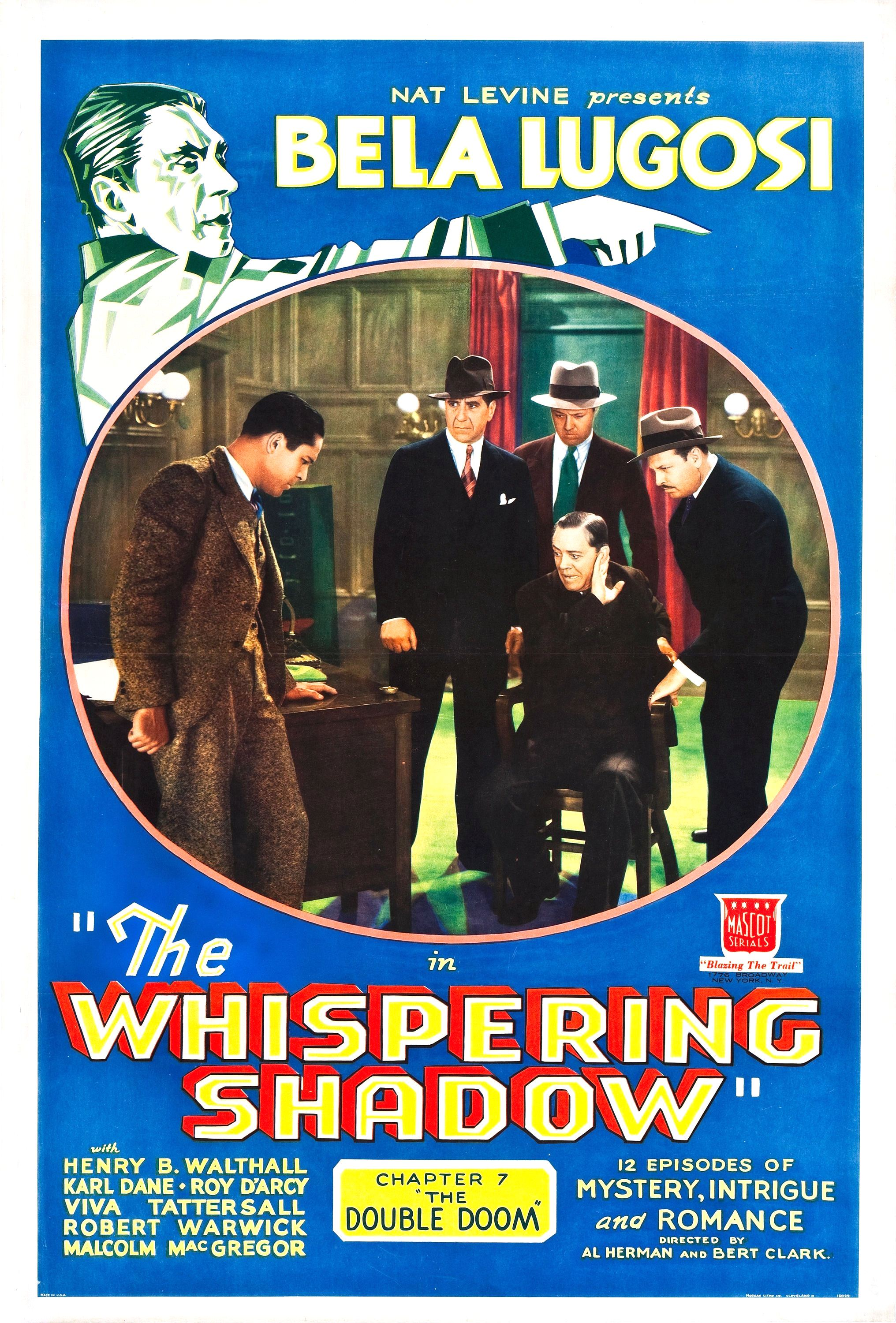 Poster for the American film serial The Whispering Shadow (1933).